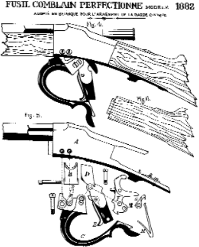 mec. lado B